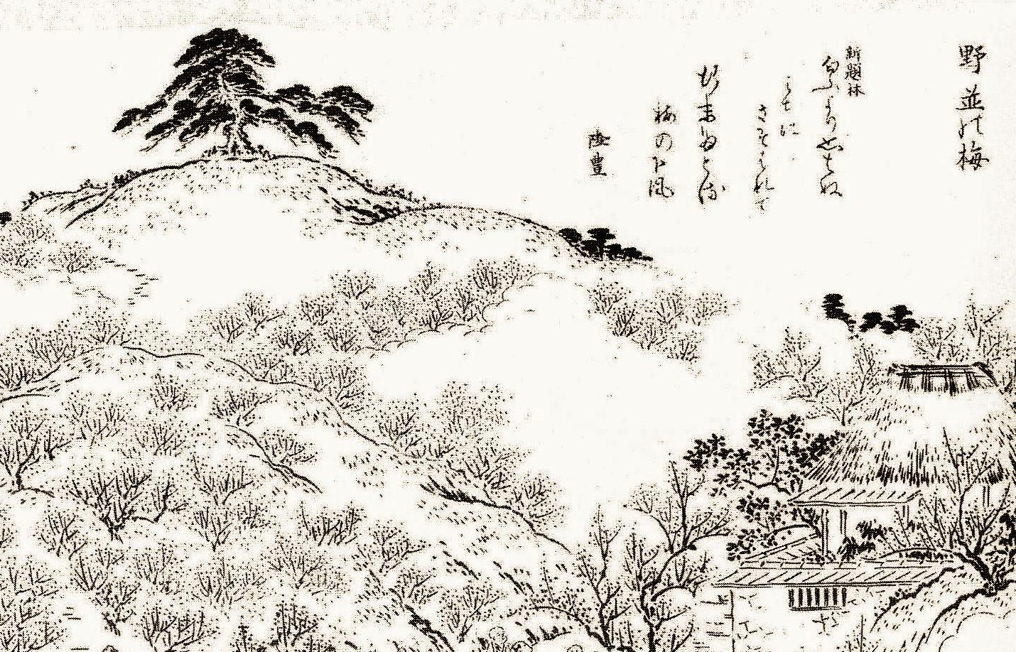 "Plum in Nonami" in Owari Meisho Zue